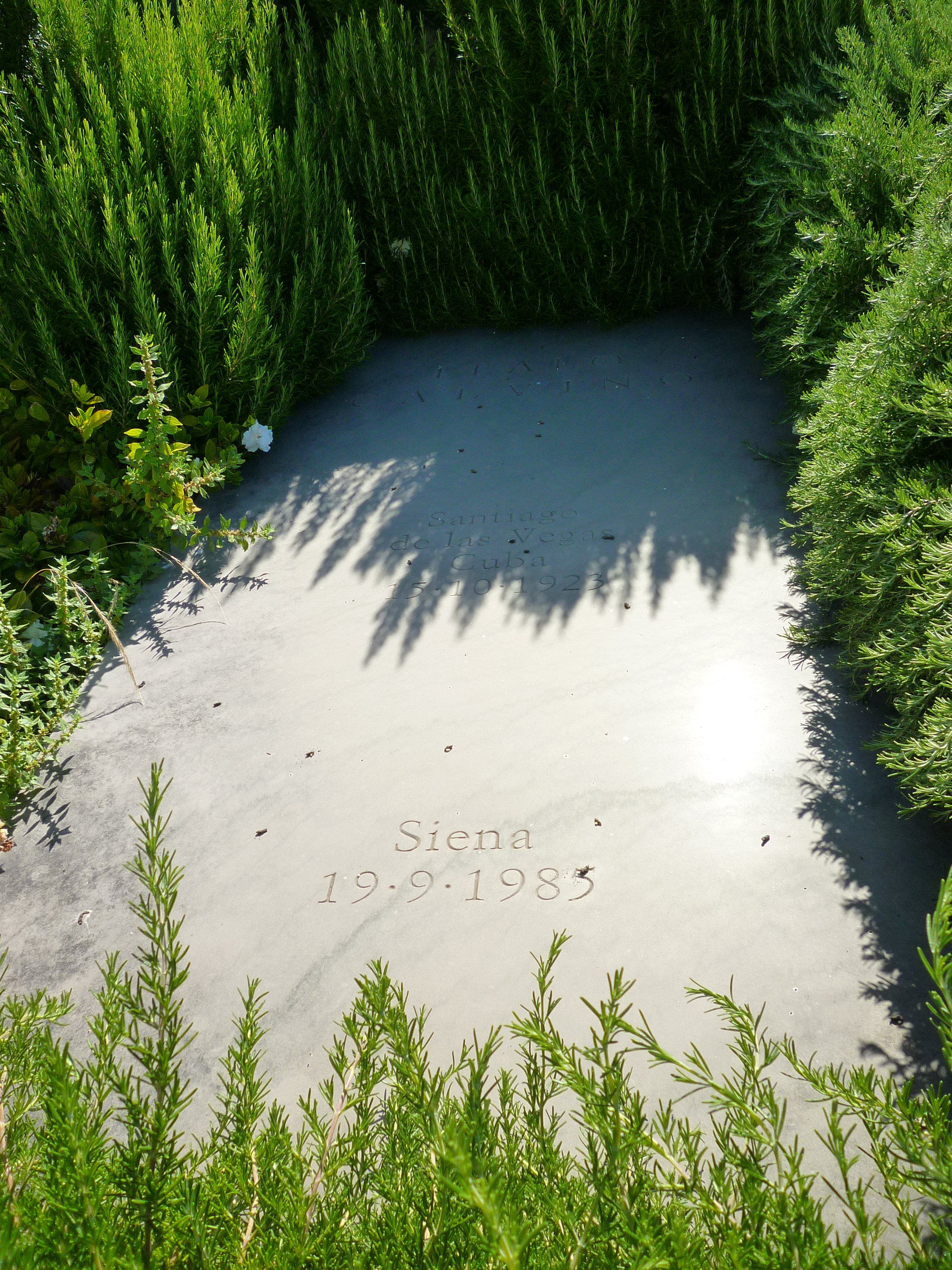 Italo Calvino's grave in the cemetery at Castiglione della Pescaia